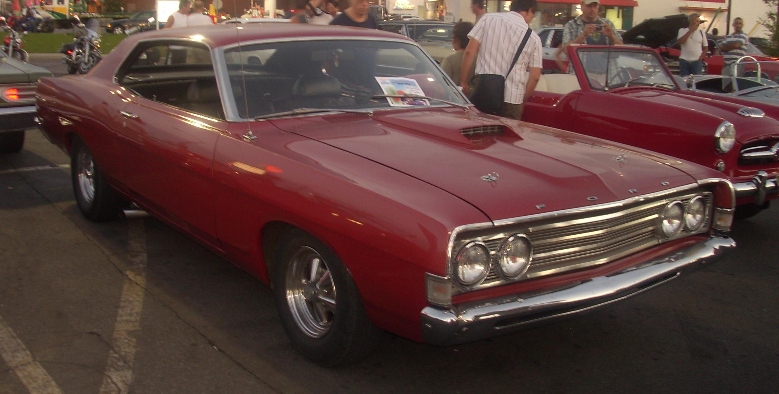 1968 Ford Fairlane GT (photographed in Montreal, Quebec, Canada at Gibeau Orange Julep.)